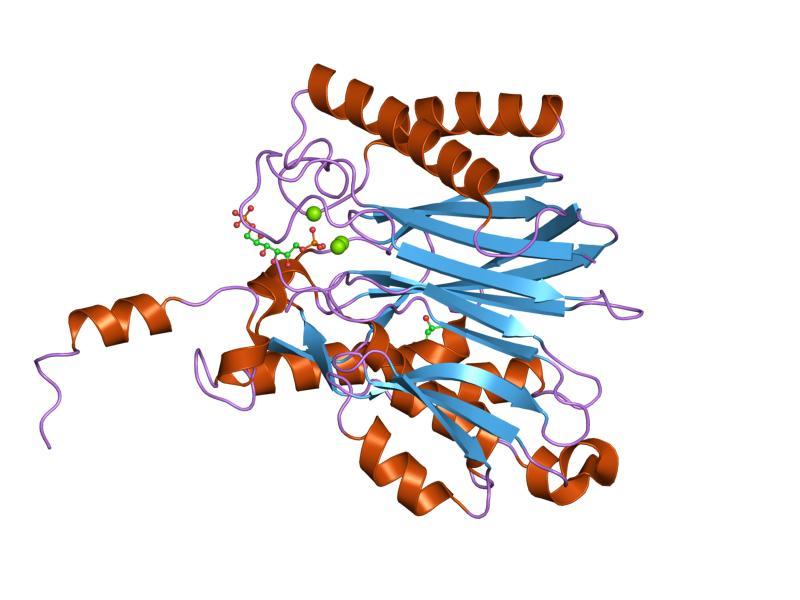 Cartoon representation of the molecular structure of protein registered with 1umg code.